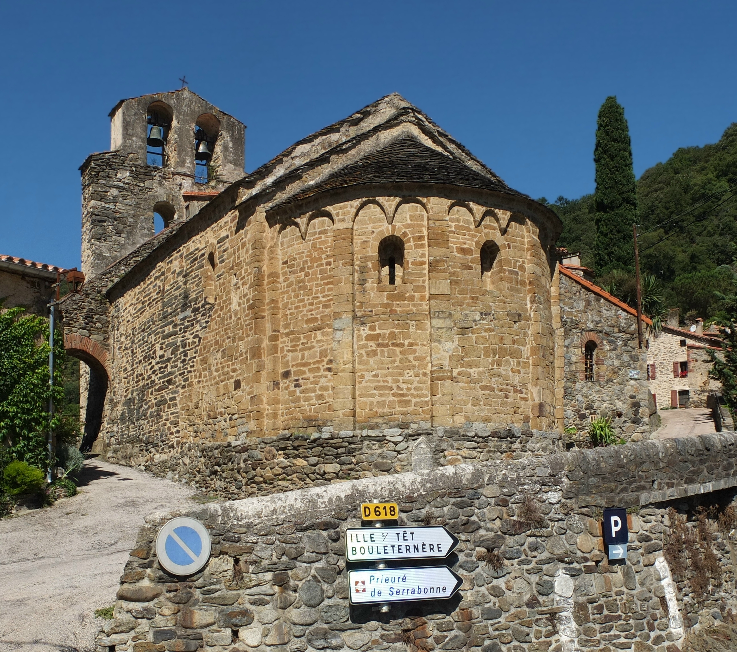 "Église Saint-Saturnin de Boule-d'Amont", Roussillon, France (view east).